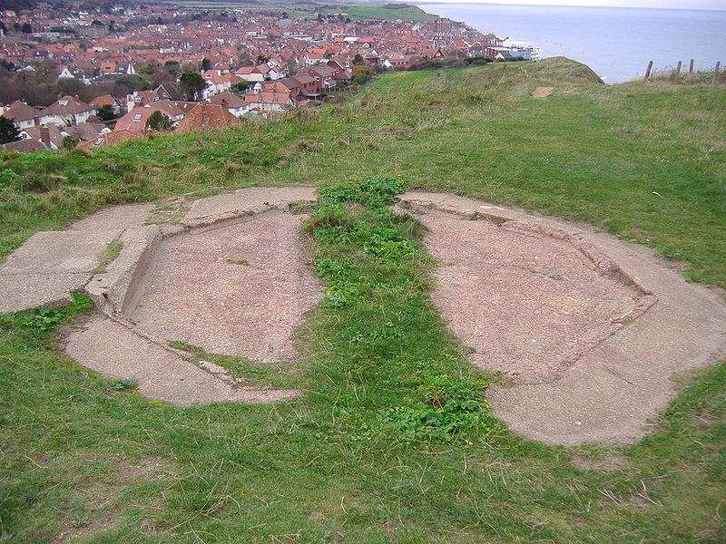 A Digital Photograph of the remains of the "Y" station on top of Beeston Bump. Taken on the 4th November 2007 by stavros1